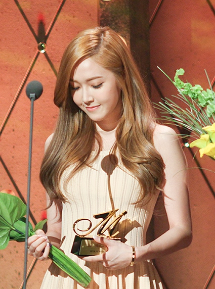 Jessica Jung at The Musical Awards on June 3, 2013.